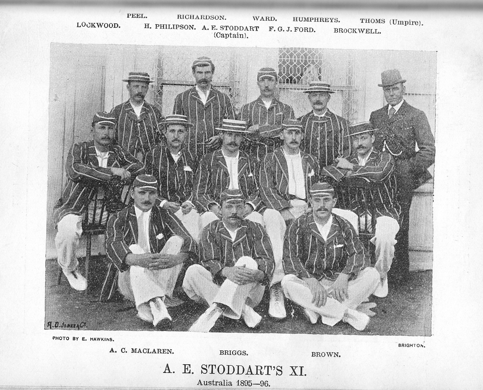 Scan of Andrew Stoddart's XI cricket team